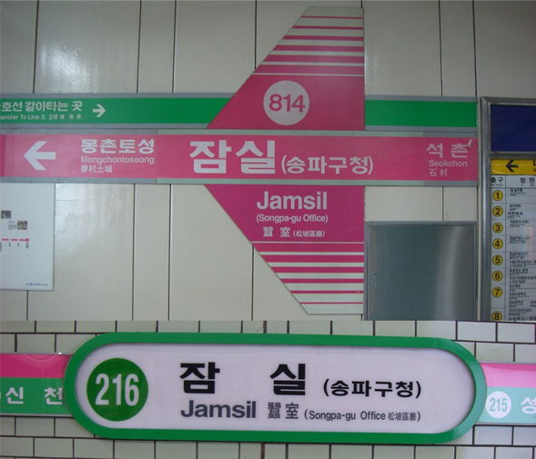 Jamsil Station